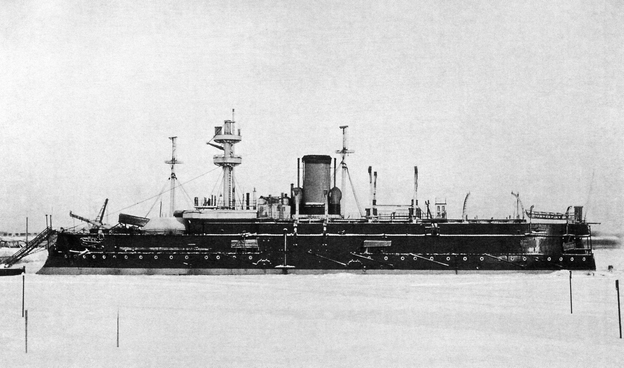 Imperial Russian battleship Gangut.